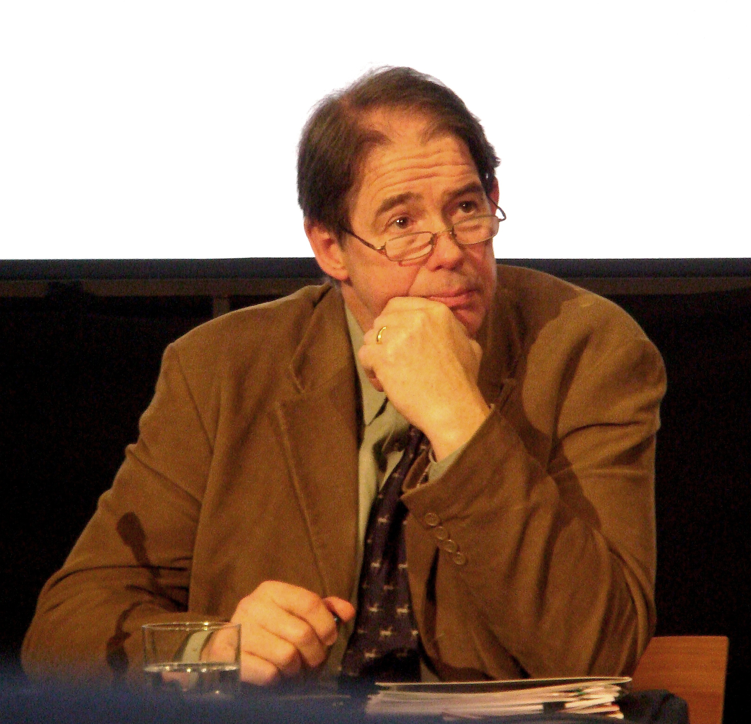 Jonathon Porritt at FACT